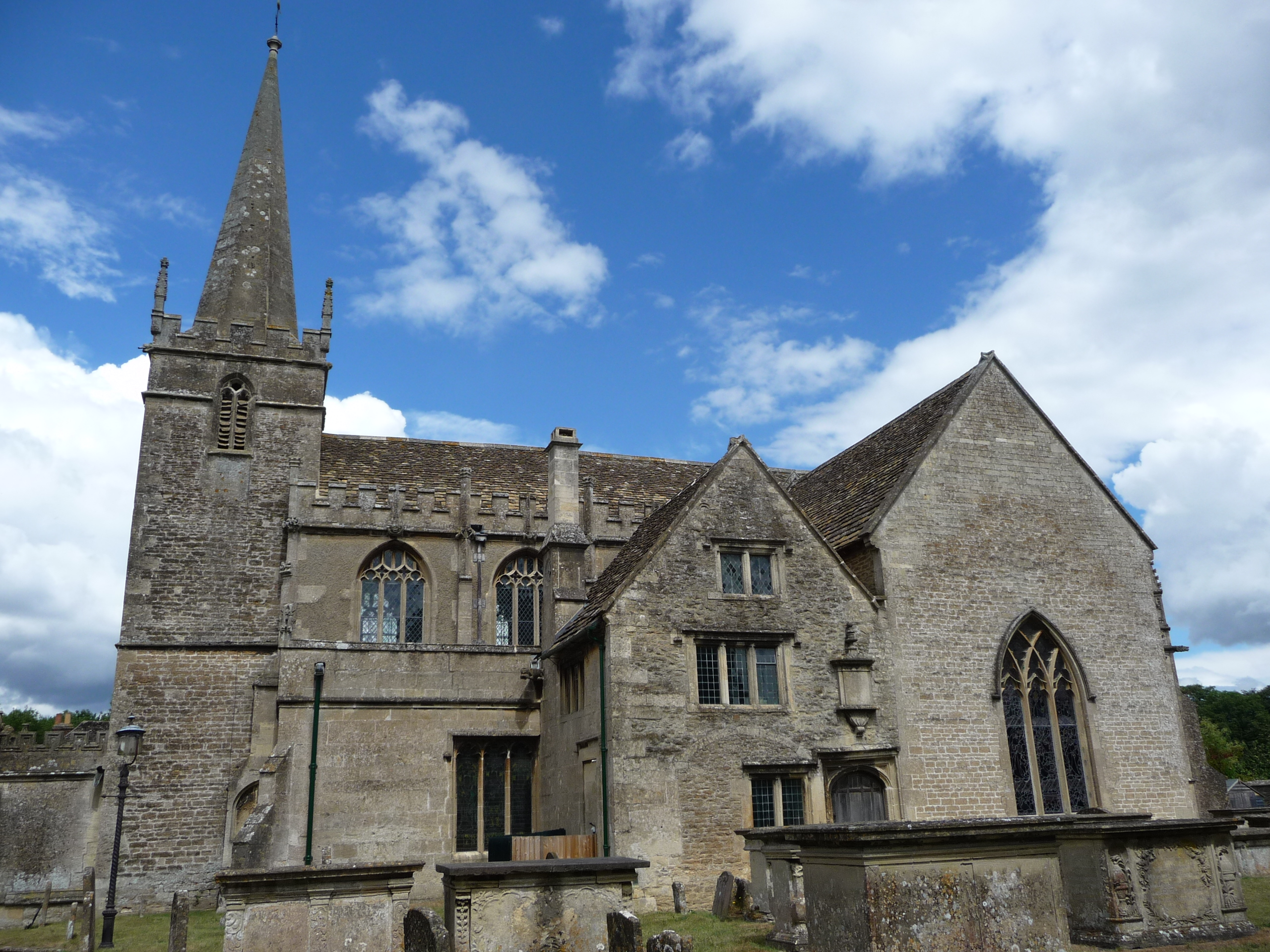 Saint Cyriac Lacock